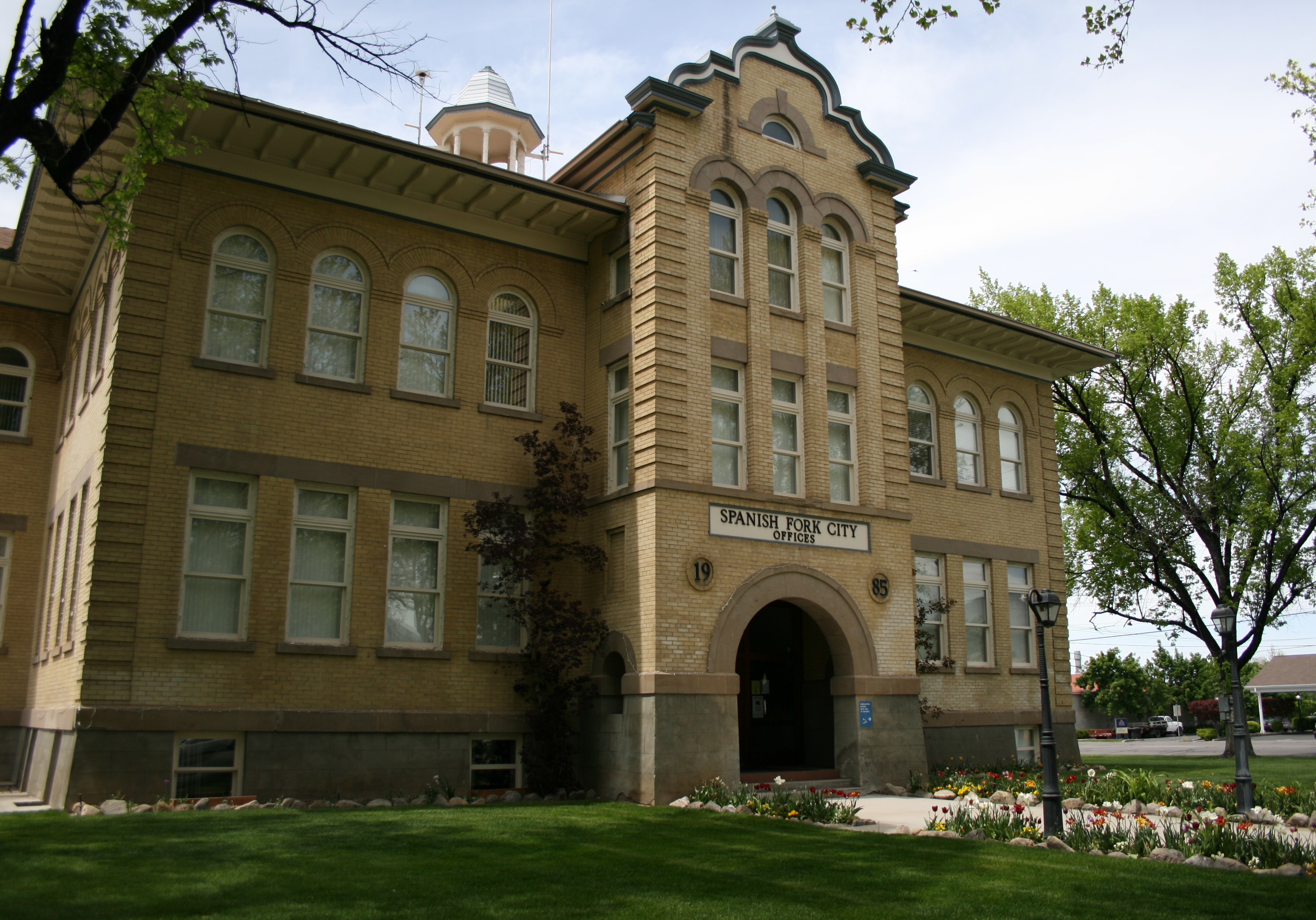 Spanish Fork City Office Building, formerly the Thurber School.